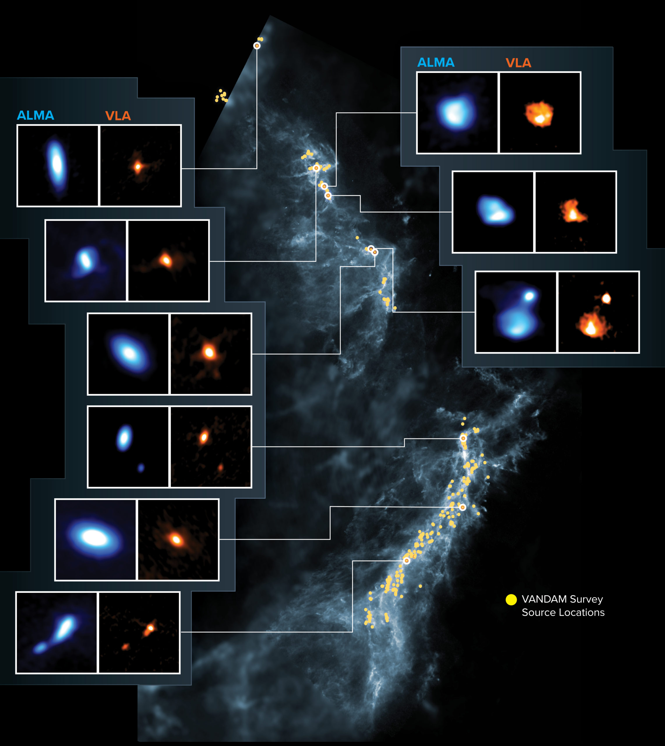 This image shows the Orion Molecular Clouds, the target of the VANDAM survey. Yellow dots are the locations of the observed protostars on a blue background image made by Herschel. Side panels show nine young protostars imaged by ALMA (blue) and the VLA (orange).media use